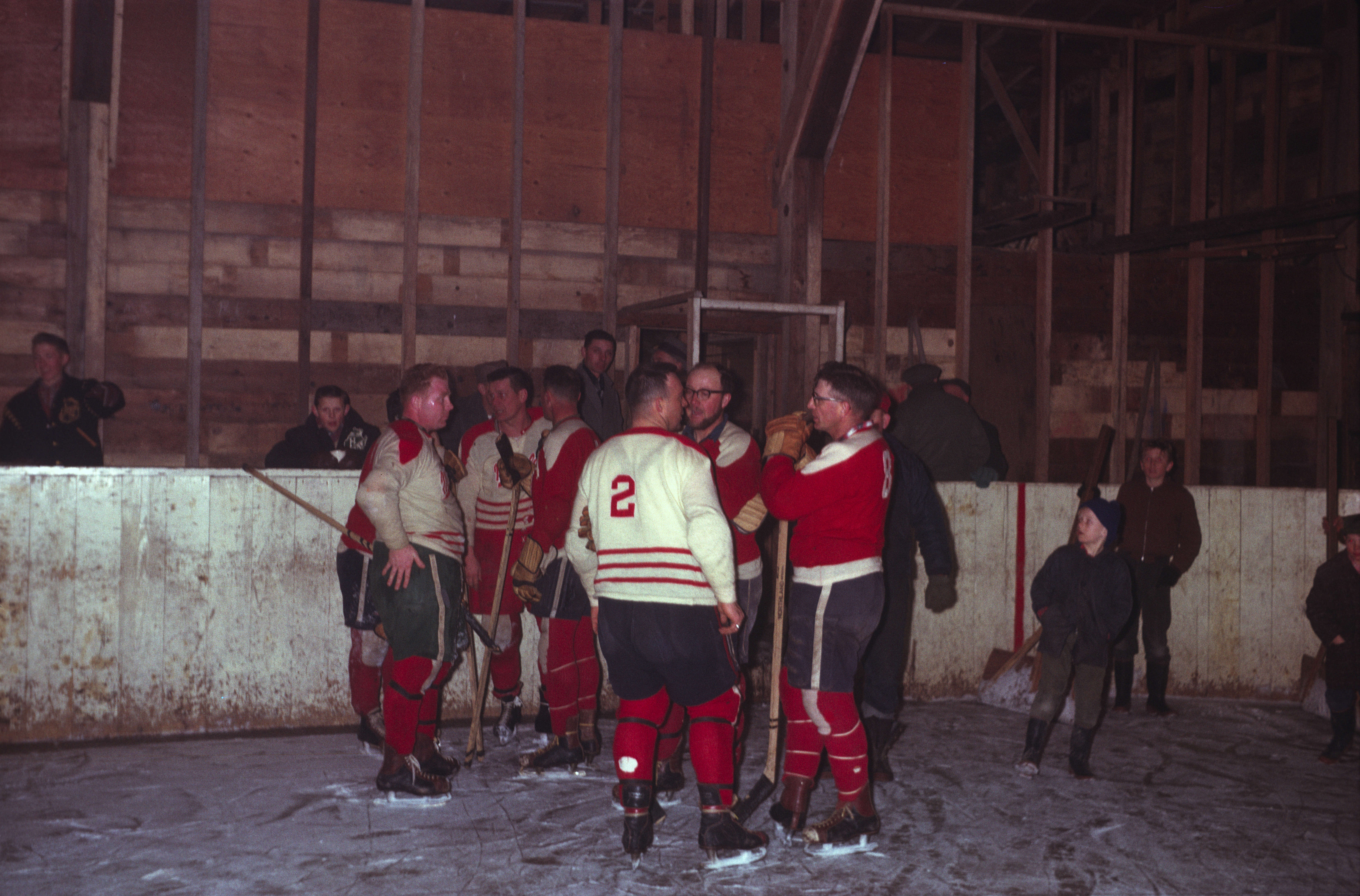 Inside Goodwater Memorial Rink, circa 1963. Goodwater Oil King #8 Don Alexander in foreground, Goodwater Oil King Gerald Alexander (in glasses) in mid-ground, and Goodwater Oil King Captain Max White in background (red jersey, back turned).